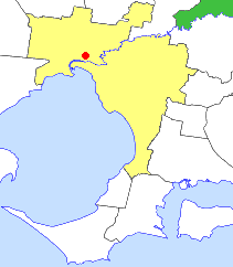 Location of the Shire of Healesville within outer Melbourne.